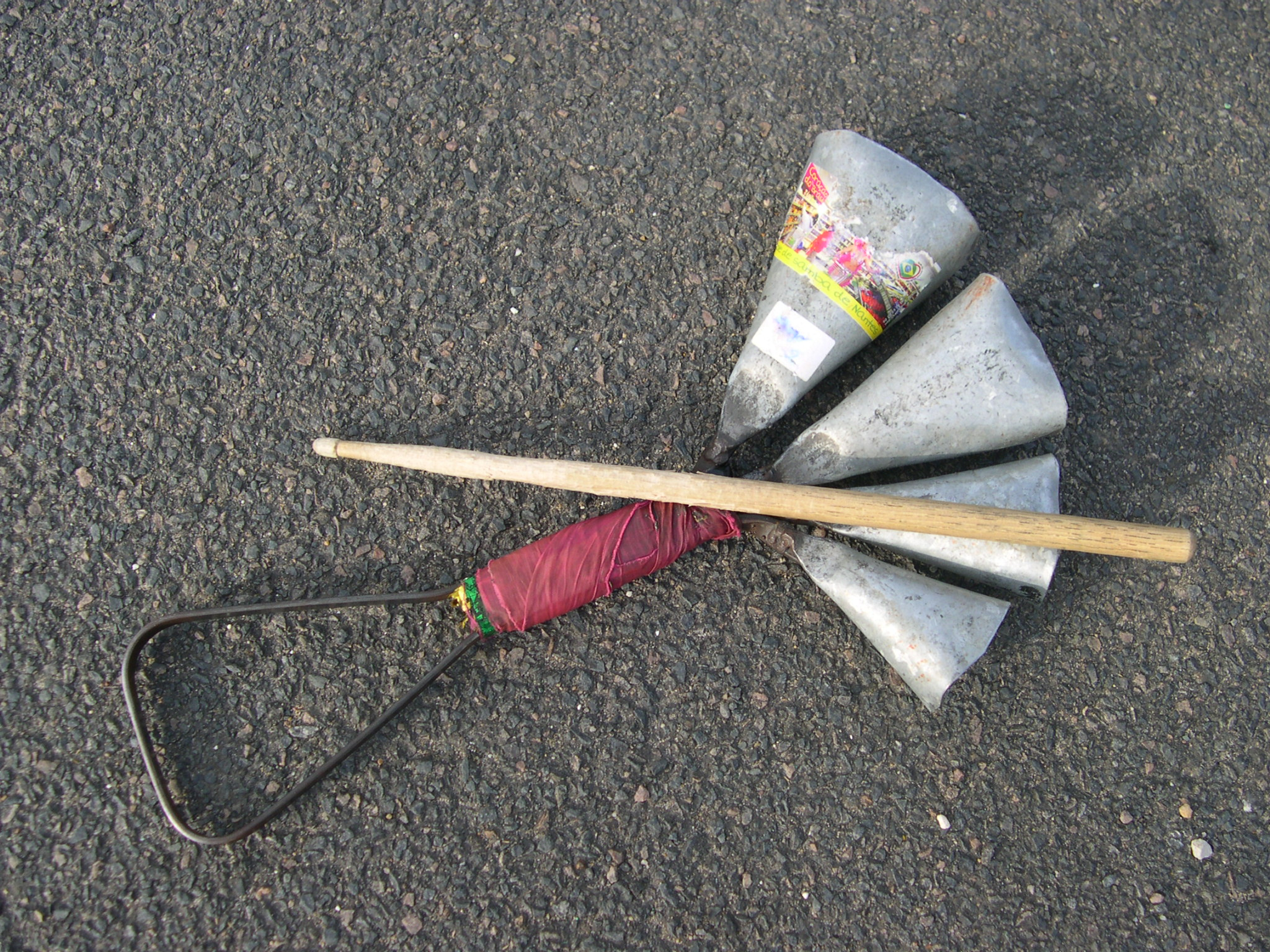 Steel agogo with four bells and its wood stick.